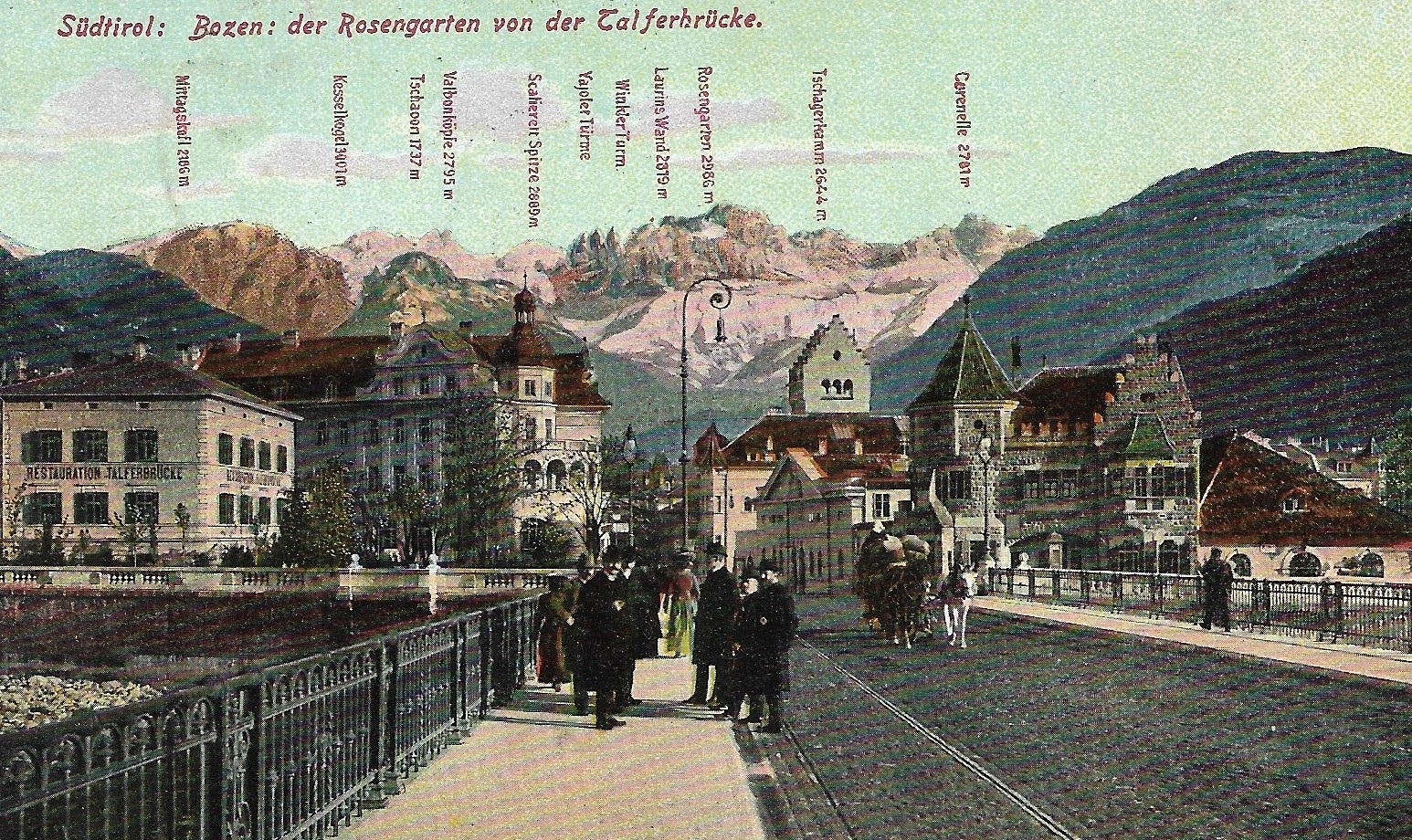 Historical postcard showing Bozen-Bolzano and the Rosengarten mountains from the Talfer-bridge